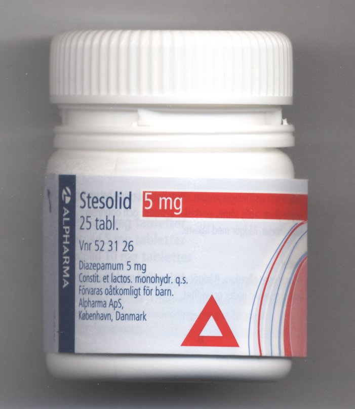 Stesolid (swedish brand name for diazepam). Image made in March 2006. By me.